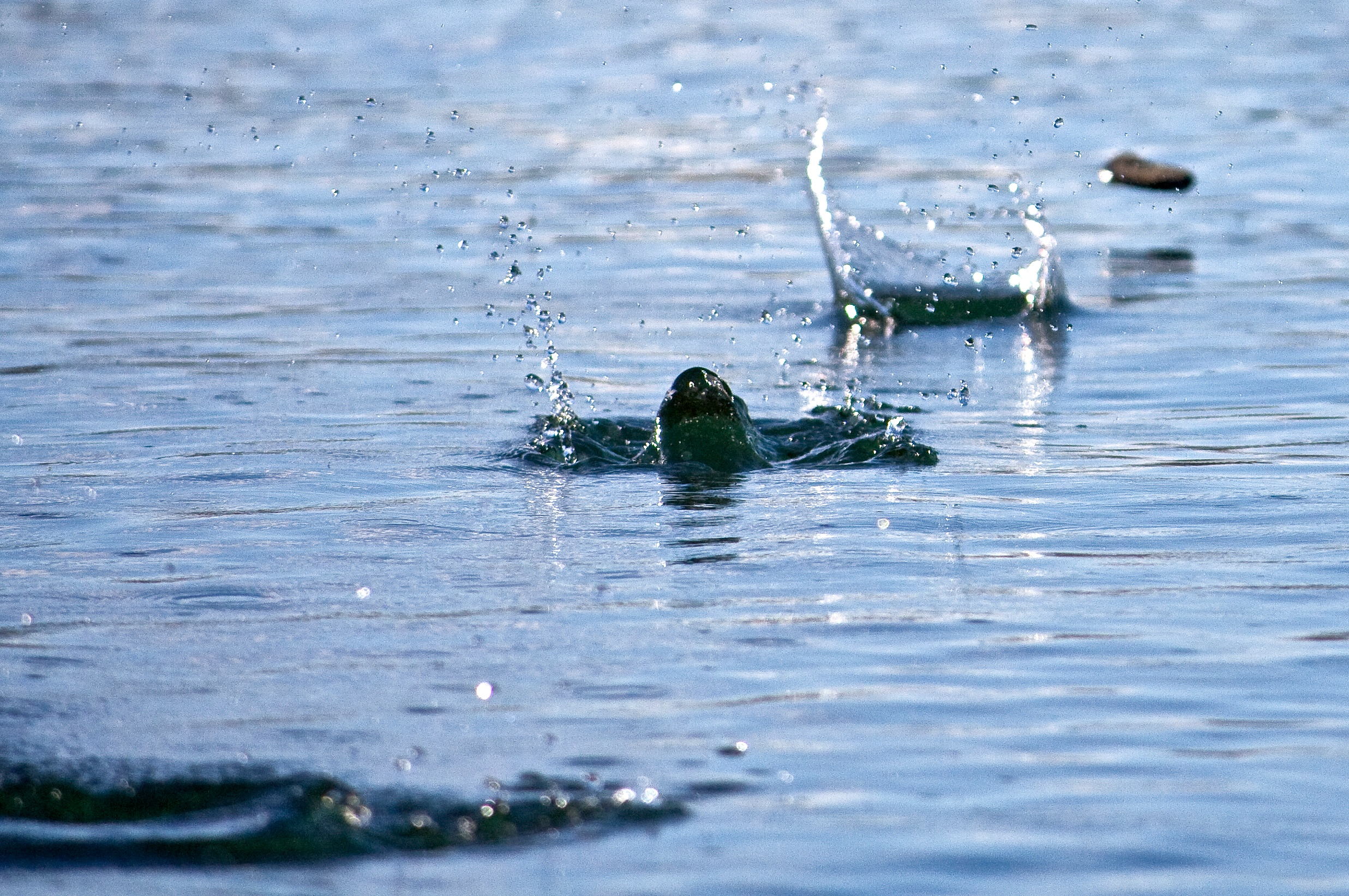 Stone skimming, Patagonia